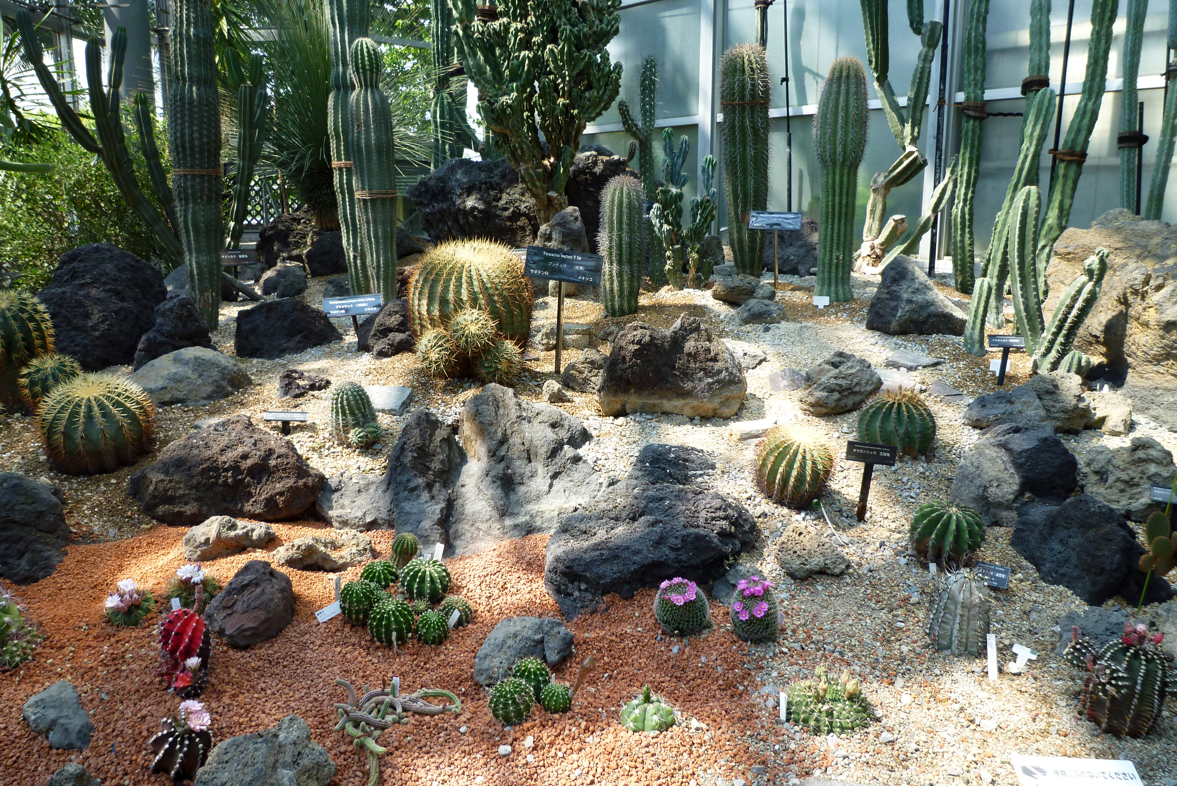 Hanahakukinenkoen Turumiryokuchi, Osaka, Osaka prefecture, Japan.